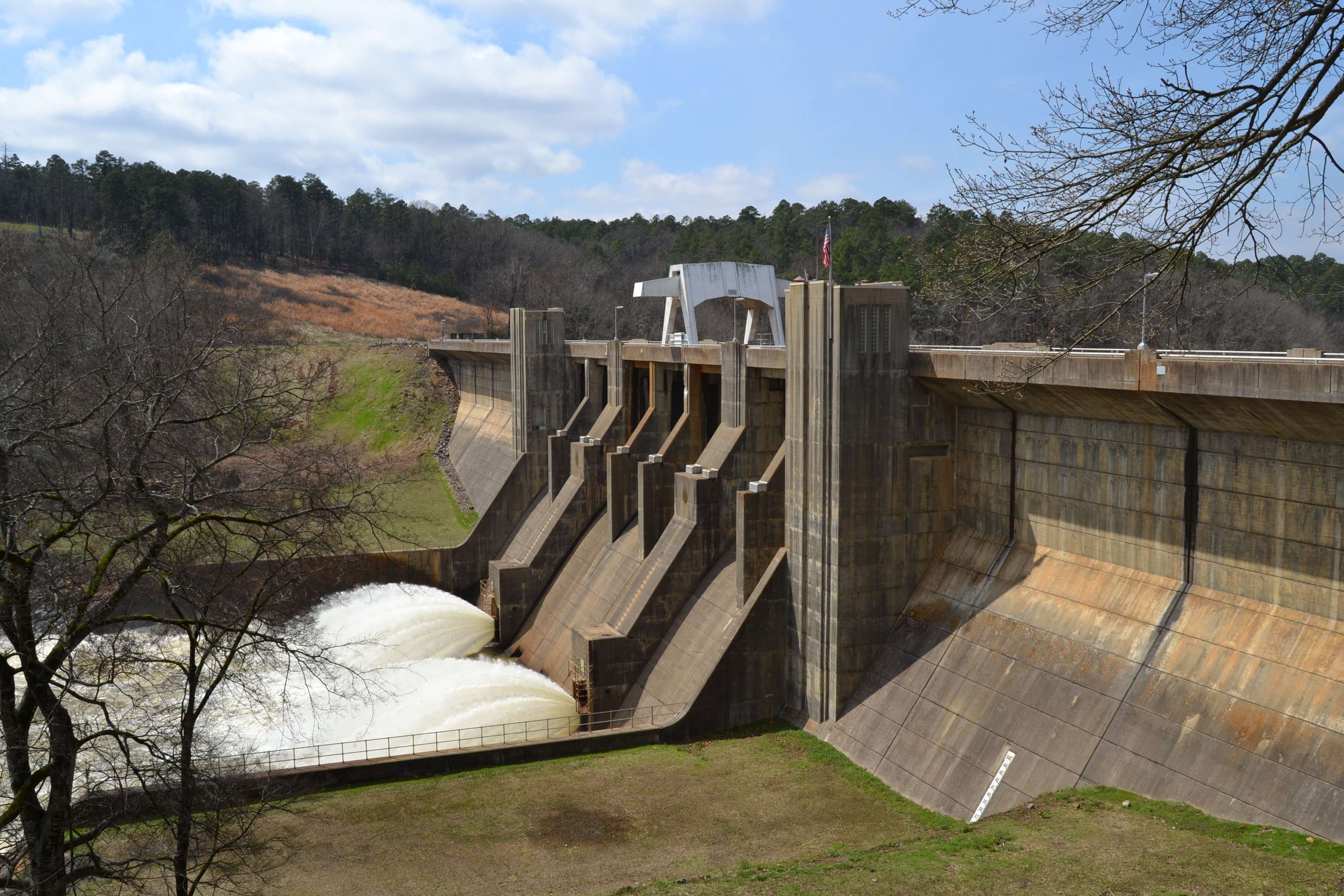 Nimrod Damn on Fourche La Fave River, Arkansas.